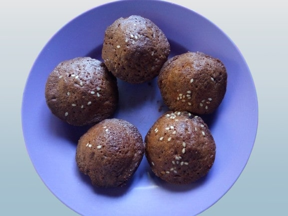 Borasa, a type of kuih for the Bugis community in the Malaysian state of Sabah, similar like Bahulu (except with palm sugar and sesame seeds been added).